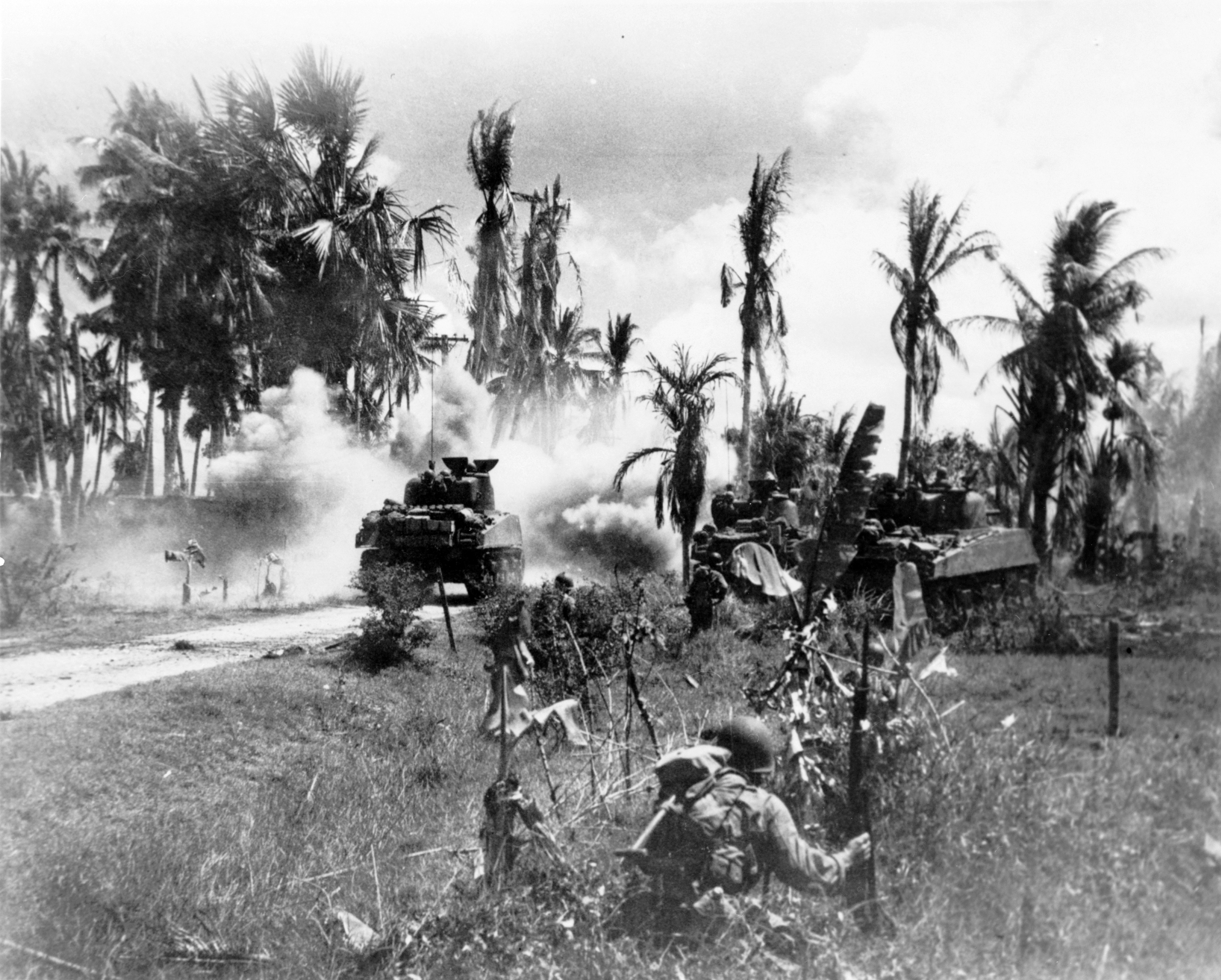 Troops of the 185th Inf., 40th Div., take cover behind advancing tanks while moving up on Japanese positions on Panay Island, P.I. This is one of the shots salvaged from the camera of Lt. Robert Fields who was killed in action shortly after it was taken